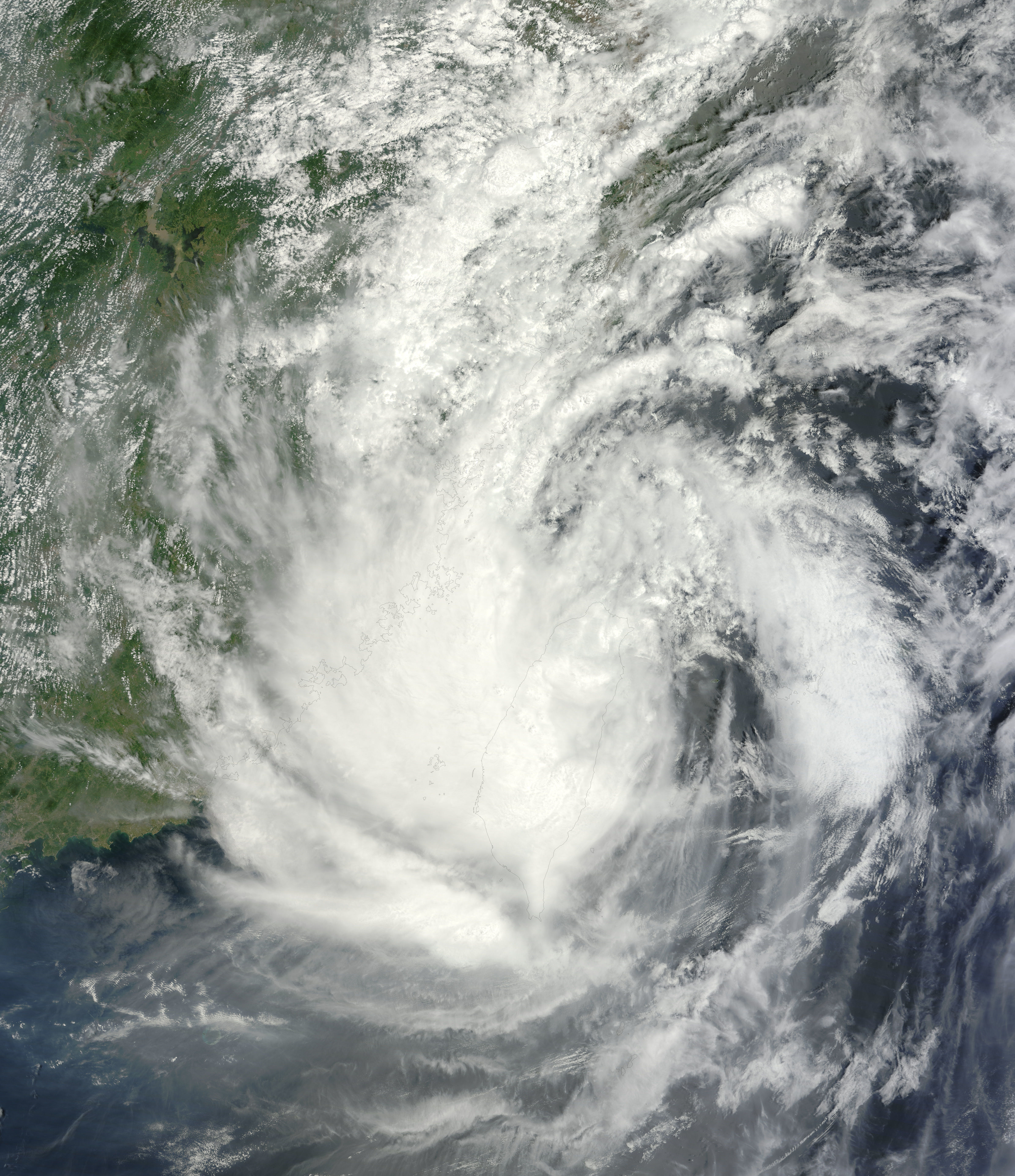 Tropical Storm Saola (10W) approaching China